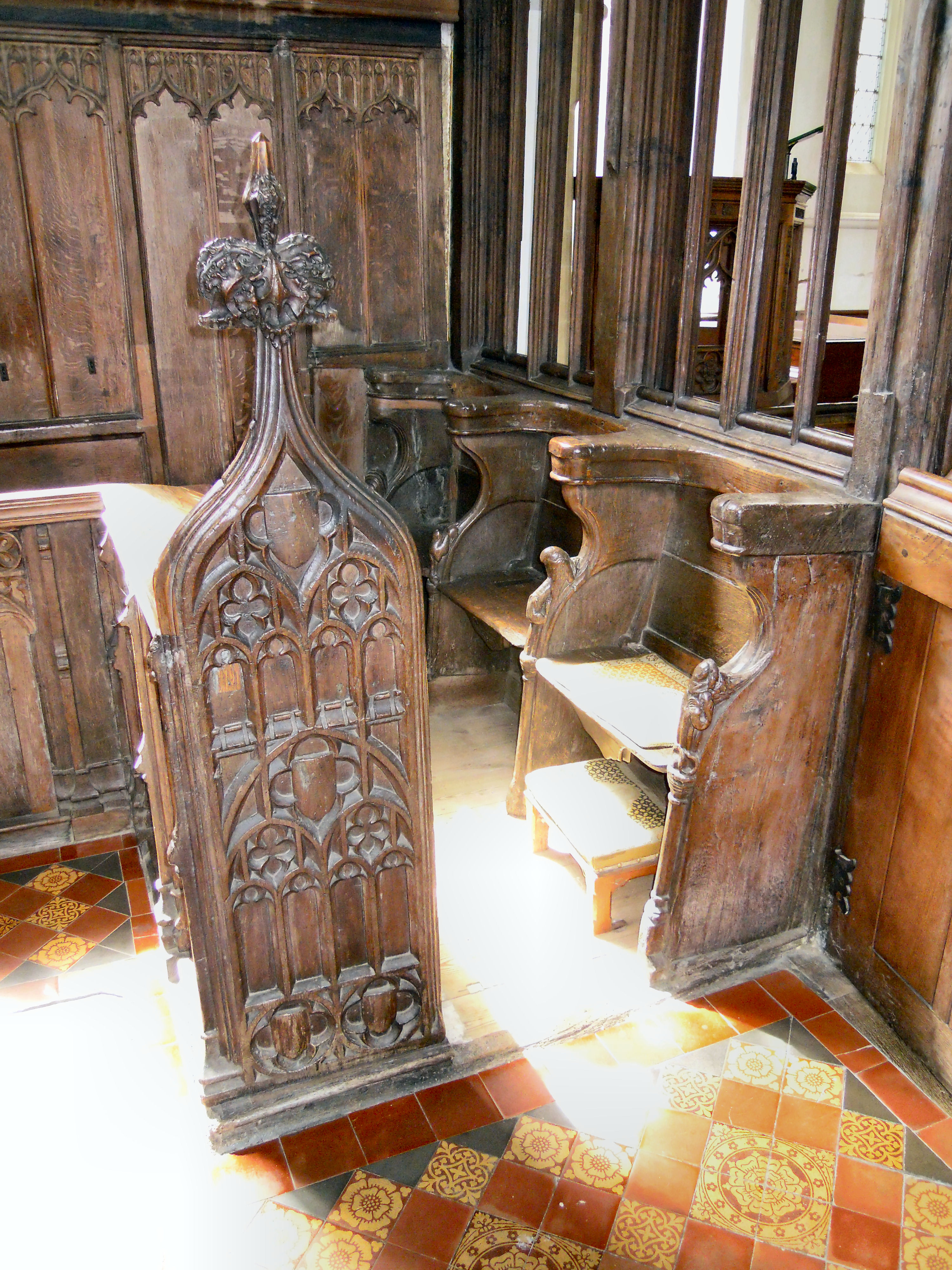 The seats in the chancel in the Church of St Mary the Virgin in Gamlingay in Cambridgeshire date to about 1442